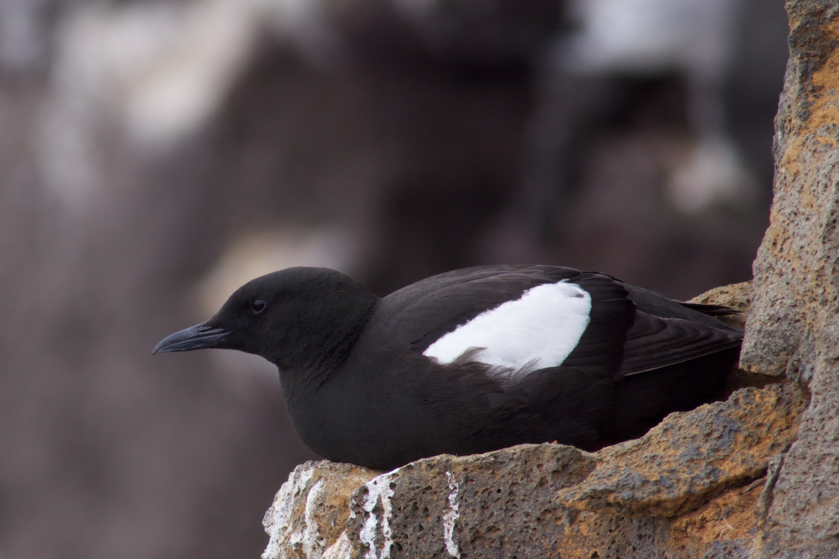 Black Guillemot resting on a cliff in Reykjanes, Iceland